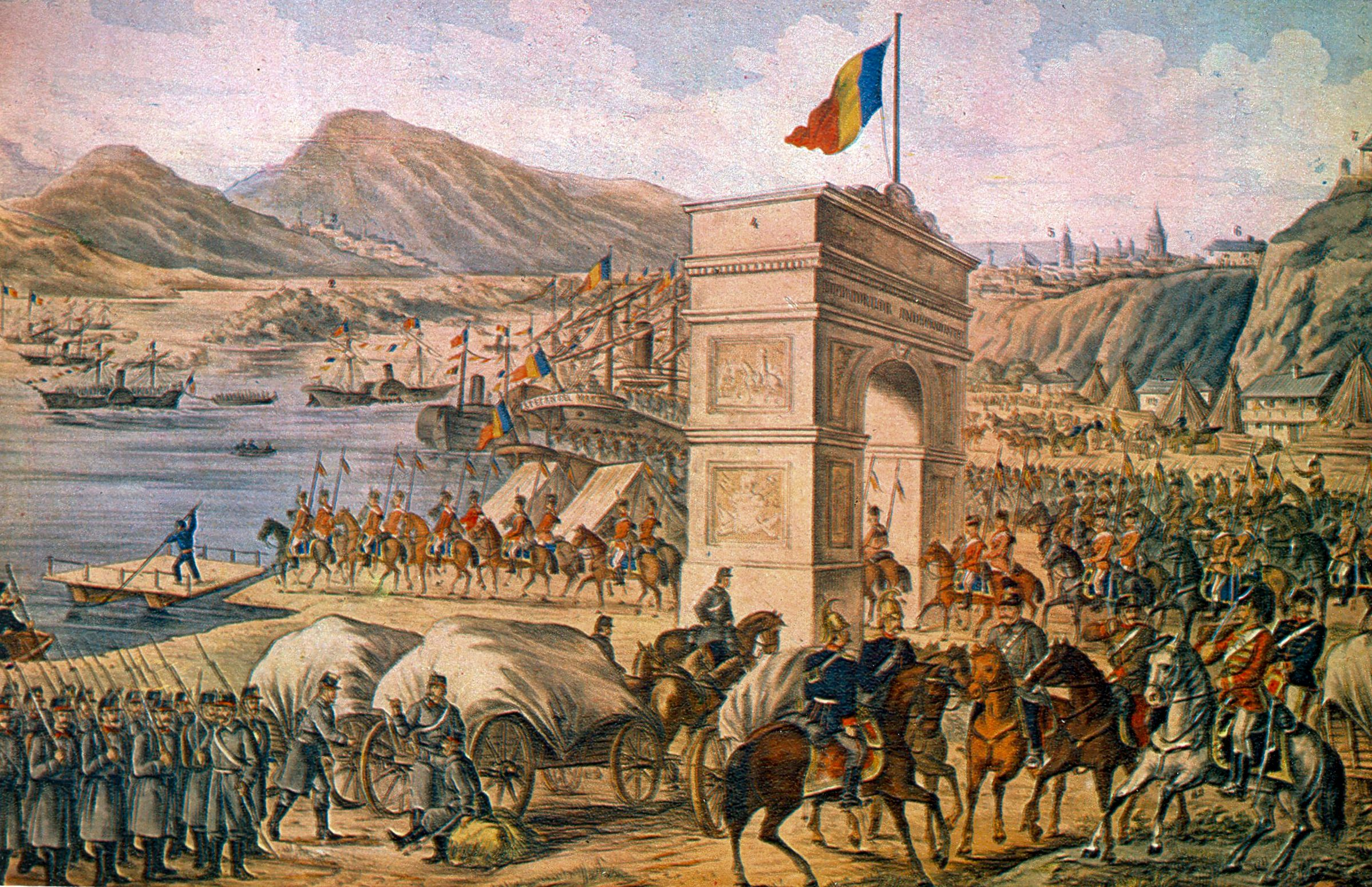 Romanian Army crossing the Danube to enter in Dobrogea, in 1878.